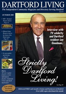 Dartford Living October 2008 Front Cover with Len Goodman